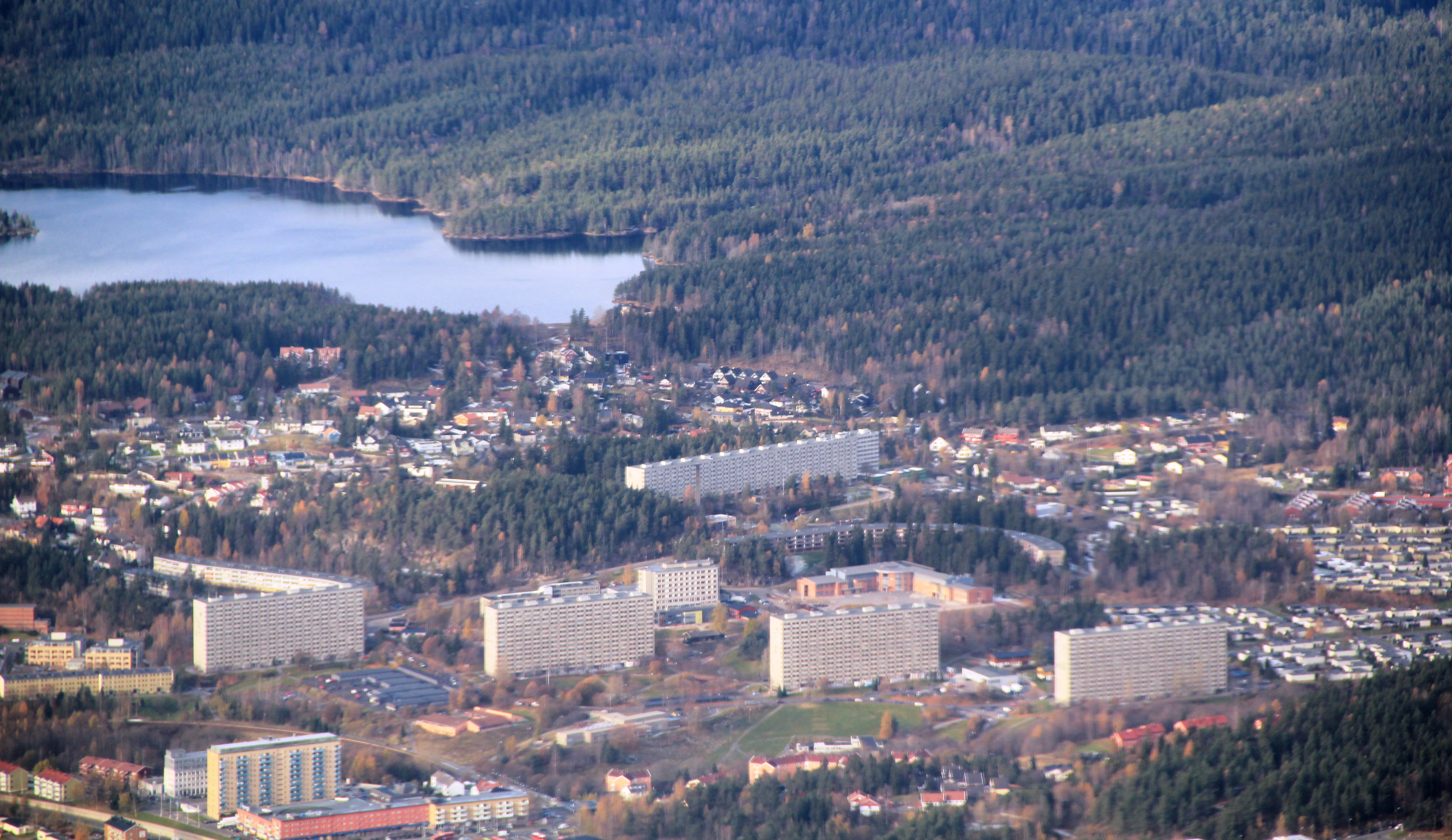 Aerial view of Ammerud in Oslo.